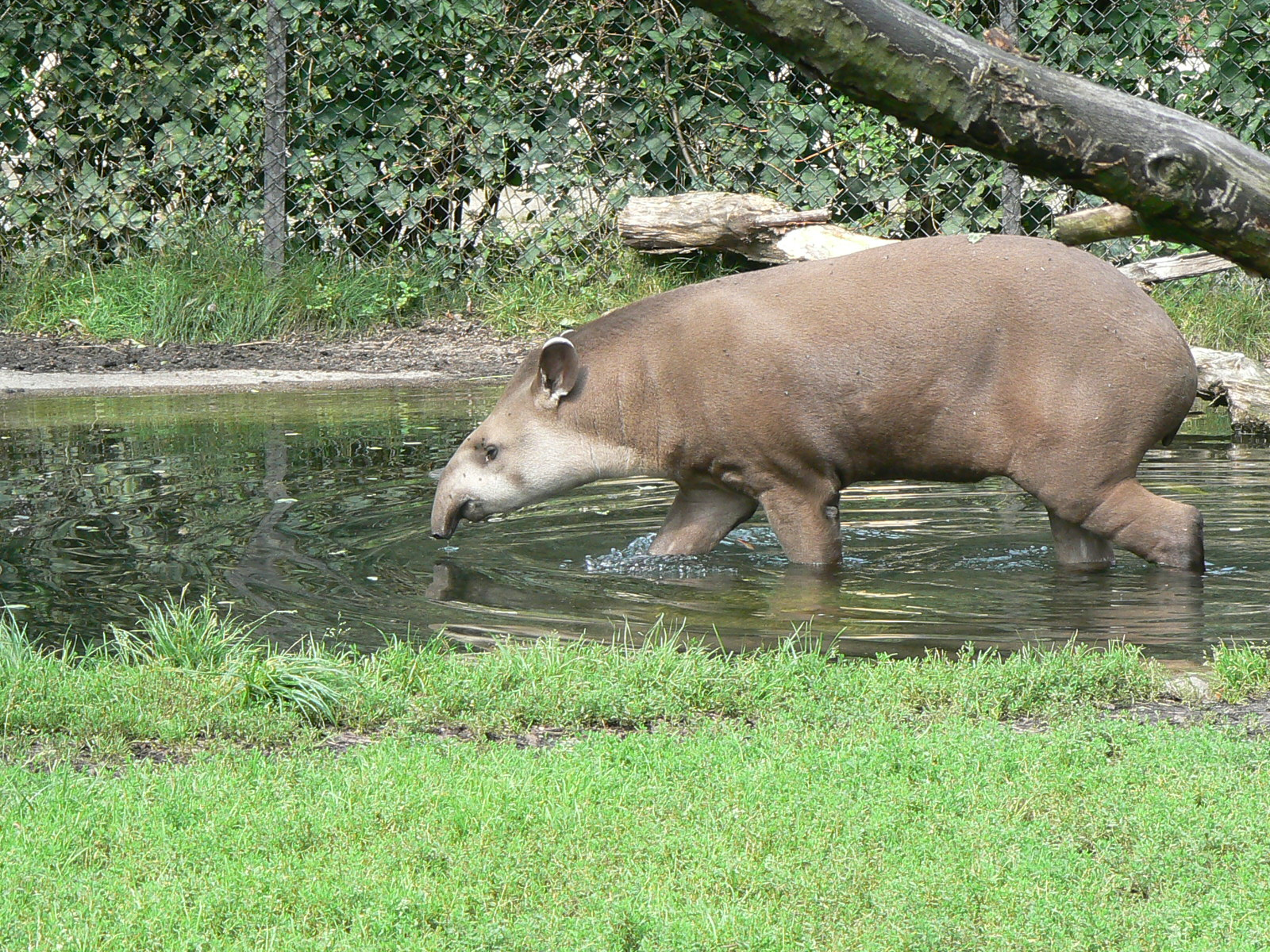 brazilian tapir / tapirus terrestris / south american tapir / flachlandtapir